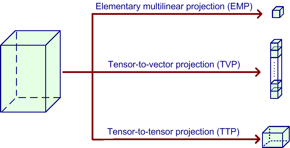 Multilinear projection to transform a tensor to a low-dimensional representation for multilinear subspace learning: elementary multilinear projection (EMP), tensor-to-vector projection (TVP), and tensor-to-tensor projection (TTP).